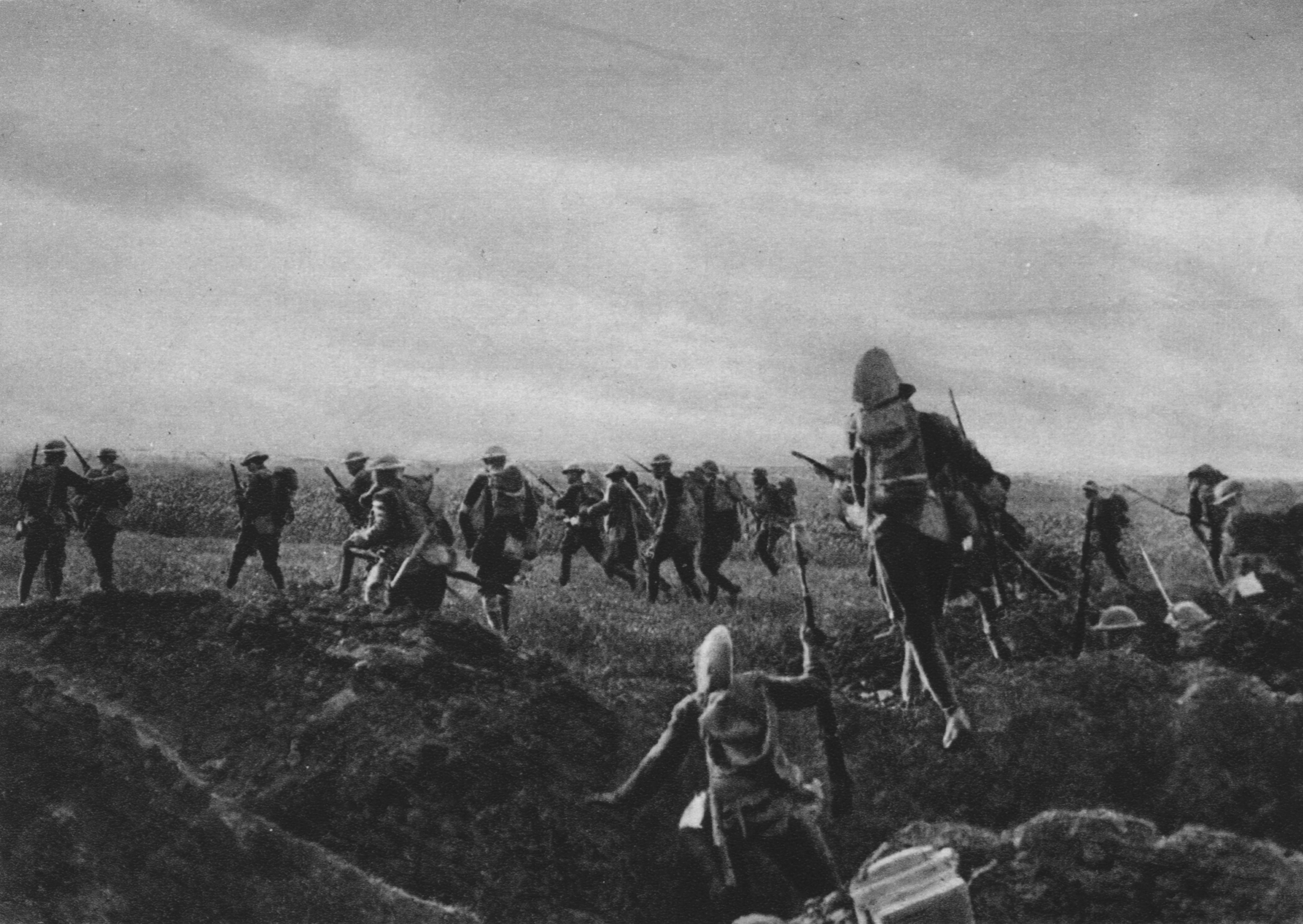 Storm and capturing of Cantigny through American troops, that were integrated into French battle groups (May 28th, 1918).